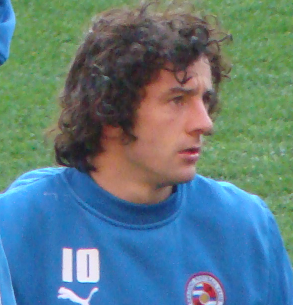 Stephen Hunt warming up against Aston Villa